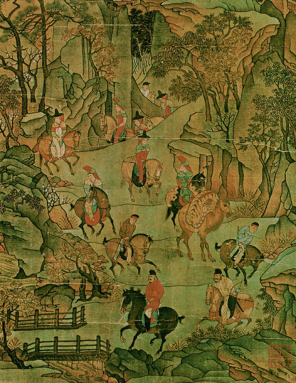 Attributed to Li Zhaodao. Detail of the scroll. Taipei NPM